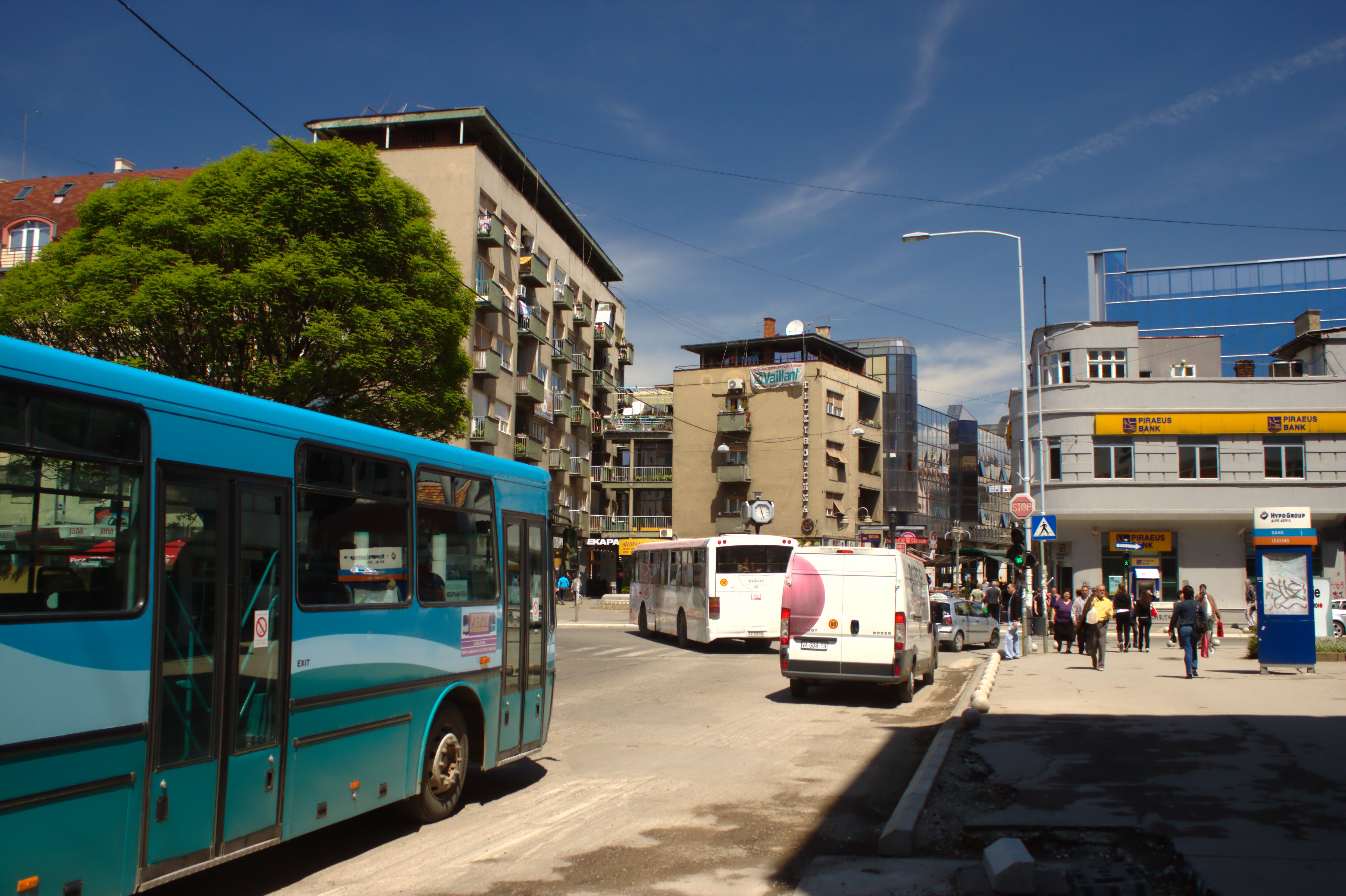 Traffic situation at 12 hours in Niš - one of the crossings located south trom the city center, Serbia